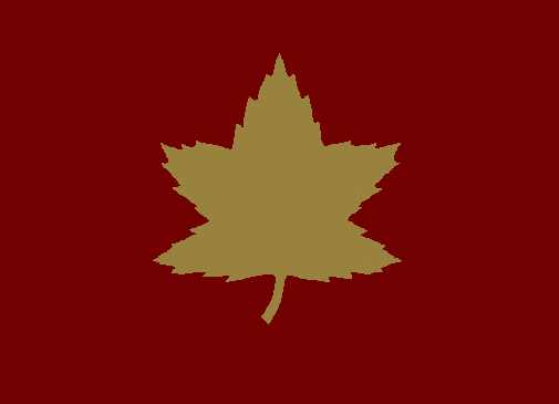 5th Canadian Armoured Division formation sign